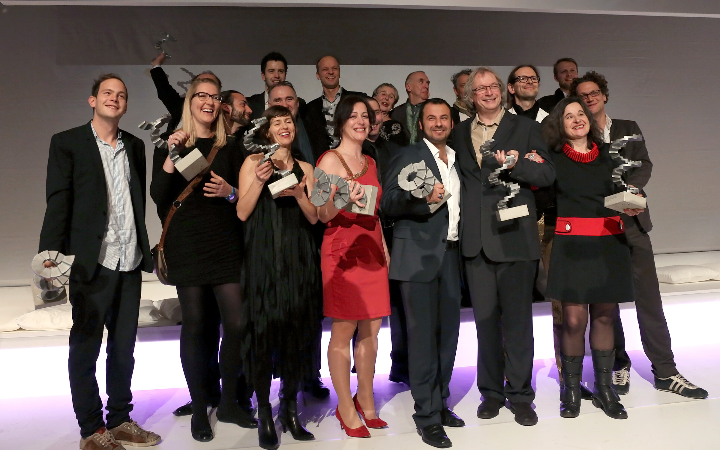 Awardees of the Austrian Film Awards 2014 (Grafenegg, Austria).